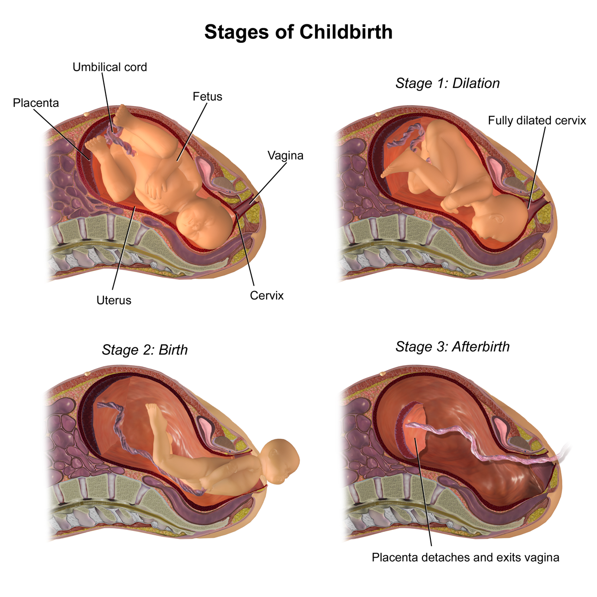 Stages of Childbirth. See a full animation of this medical topic.